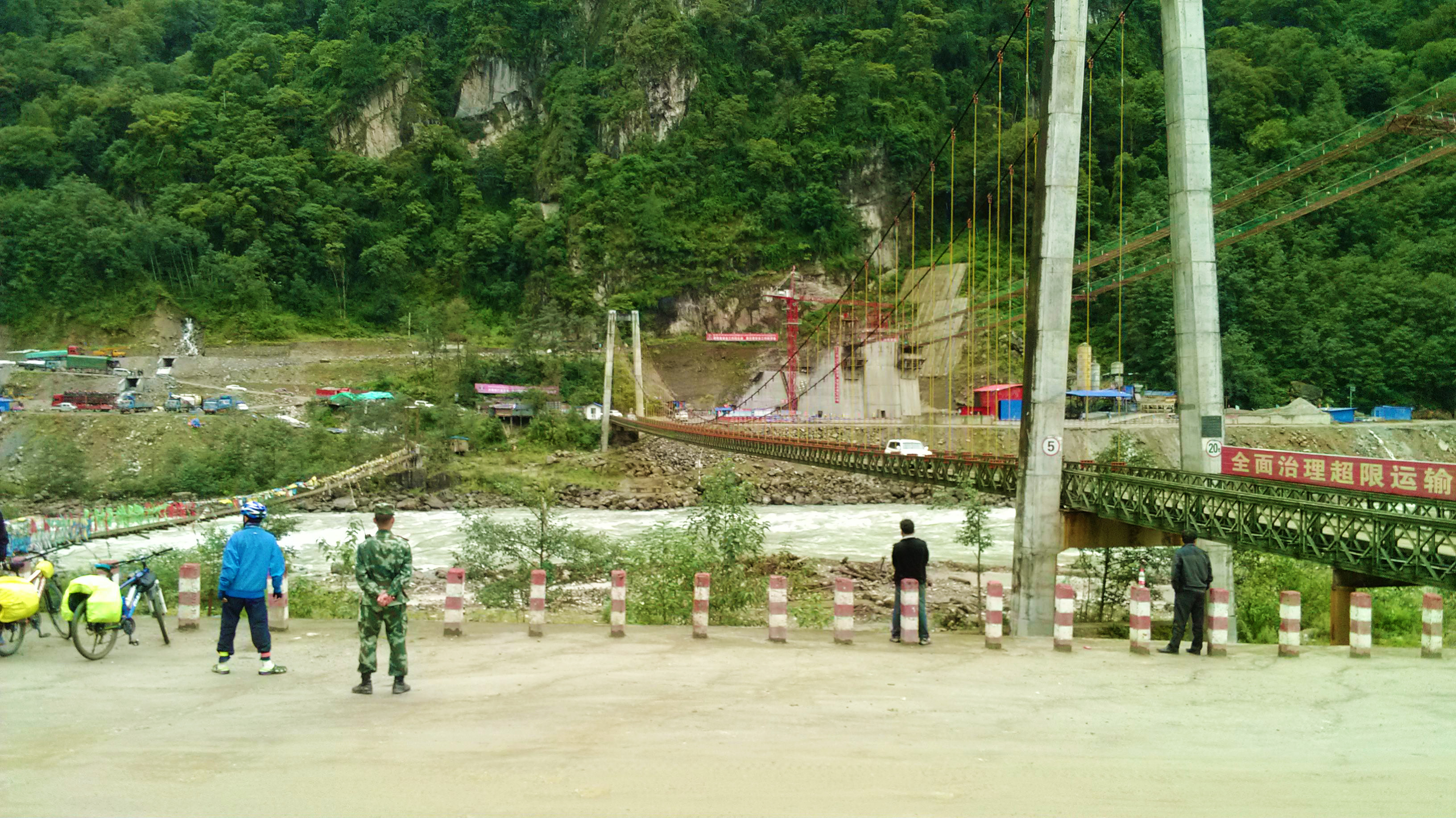 Tongmai suspension bridge on the Sichuan-Tibet highway in Bomi county, Tibet, China.